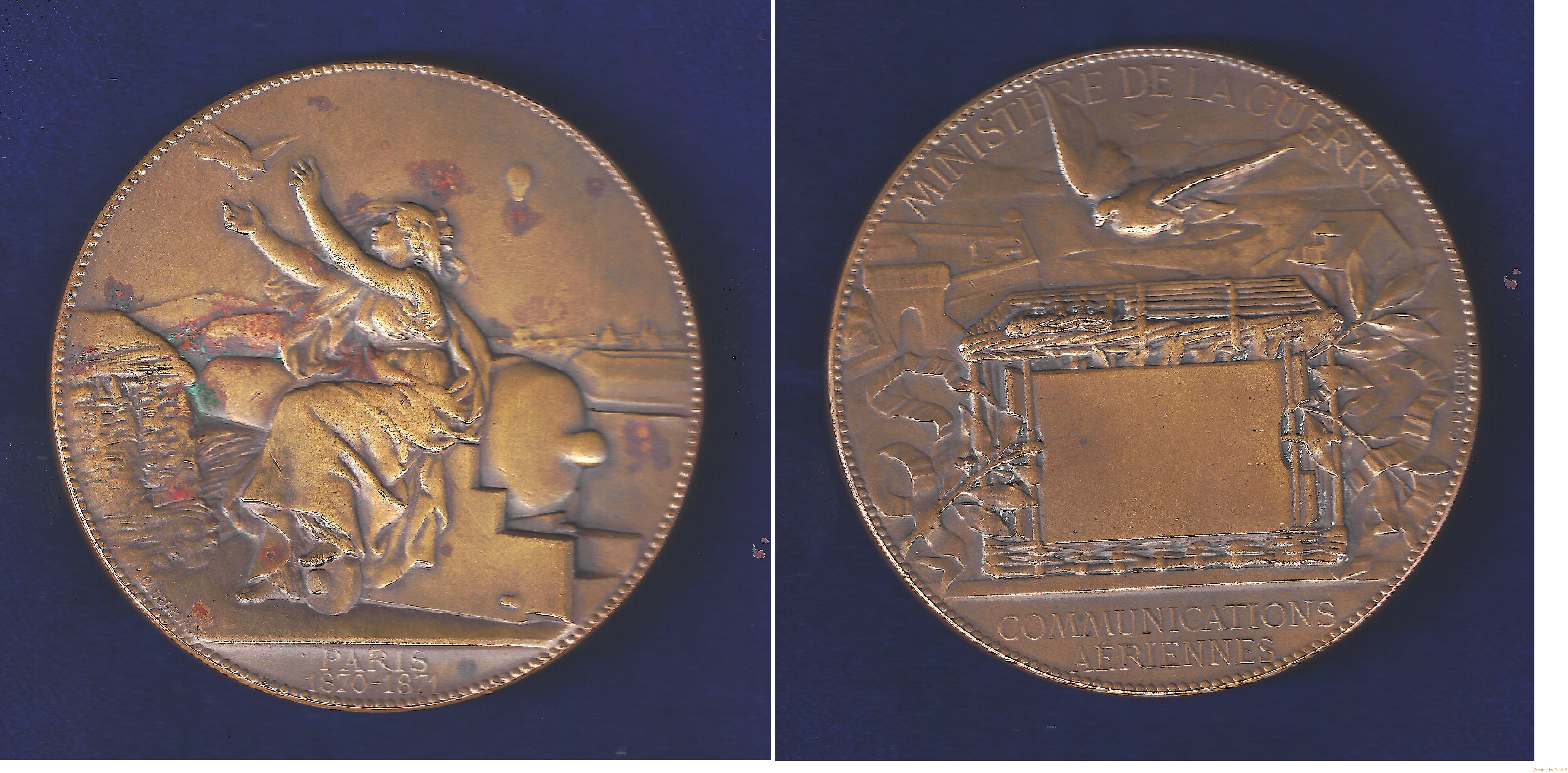 Siege of Paris 1870-1871, Pigeon Post Medal for French Military Communications. Bronze medallion, d. = 63 mm. During the course of the siege, pigeons were regularly taken out of Paris by balloon. Initially, one of the pigeons carried by a balloon was released as soon as the balloon landed so that Paris could be apprised of its safe passage over the Prussian lines. A pigeon is released by the city goddess Lutetia sitting l. on a cannon. In the background up at r. a hot air balloon carrying homing pigeons. 2 lines in exergue: "PARIS 1870-1871"/ A pigeon landing l., curved above: "MINISTÈRE DE LA GUERRE", 2 lines in exergue: "COMMUNICATIONS AÉRIENNES". Button 12. Artist: C. (Charles Jean Marie) Degeorge, 1837 Paris - 1888 Paris Condition: EXTREMELY FINE, little tarnish.